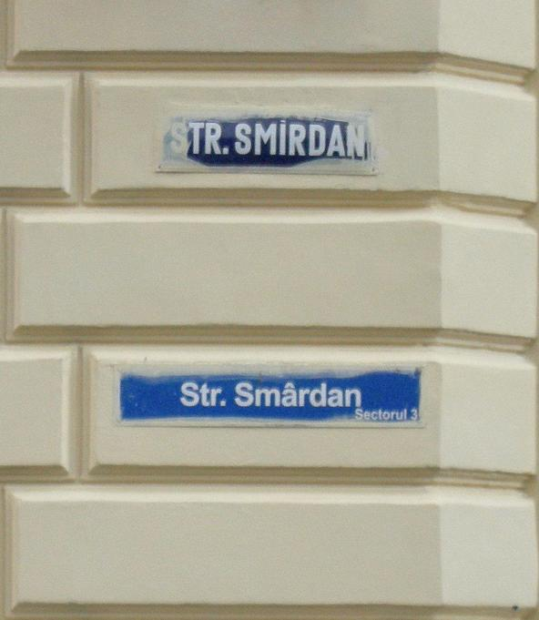 A pair of street signs in Bucharest, Romania displays one of the main effects of the Romanian-language spelling reform of 1993. "Str. Smîrdan" and "Str. Smârdan".